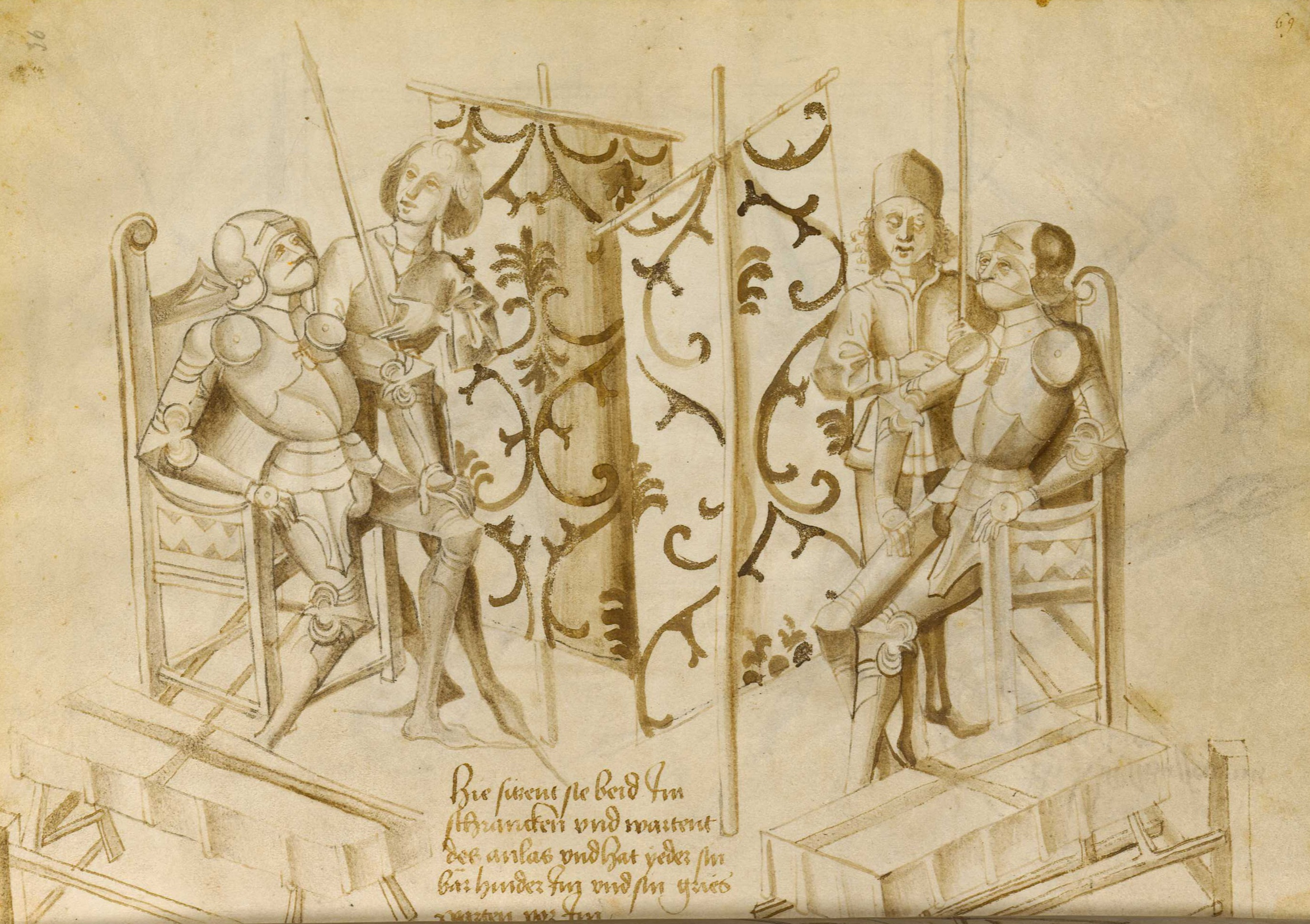 This is a scan of the historical Fechtbuch ('fencing book') by German fencing master Hans Talhoffer.